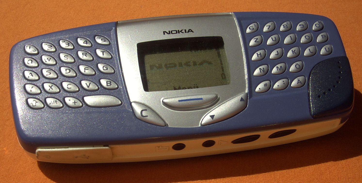 mobile phone NOKIA 5510 in blue, top view of keyboard and display